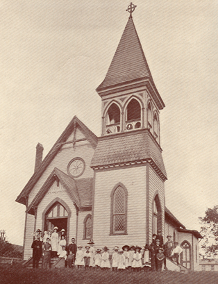 Original wooden building used by St. Andrew's Episcopal Church, Brewster, NY, USA.